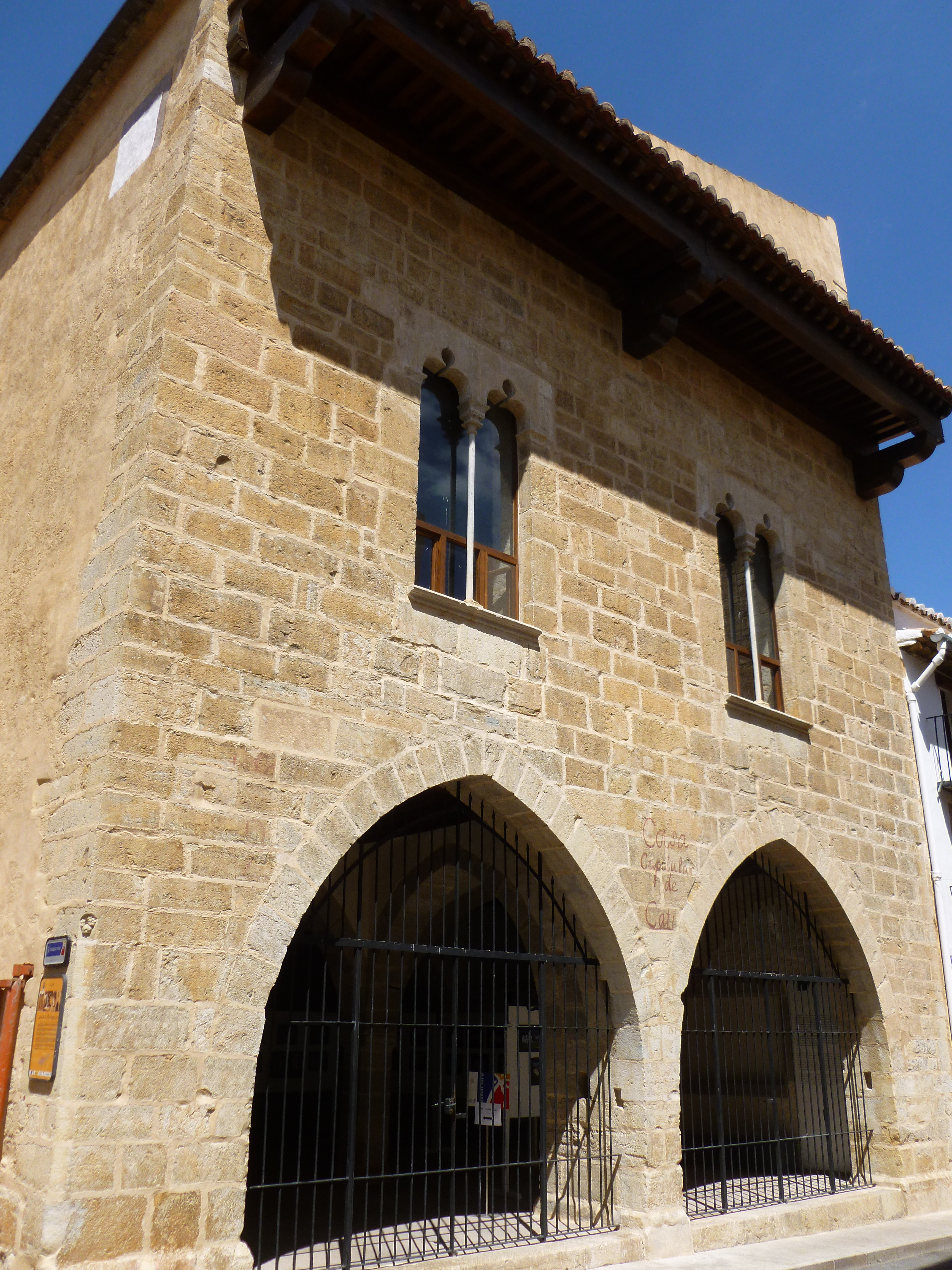 Town hall of Catí 02.042-010.